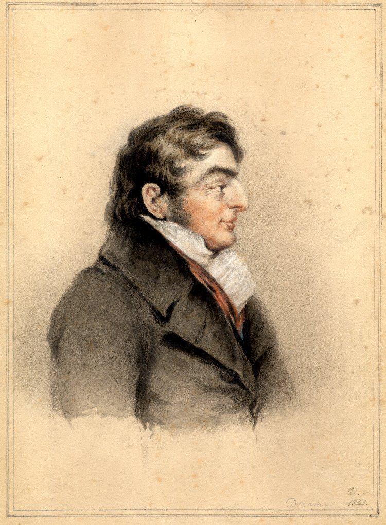 "Portrait of Joseph Mallord William Turner," drawing in red and black chalk with grey wash, by Charles Turner. 373 mm x 273 mm. Courtesy of the British Museum, London.